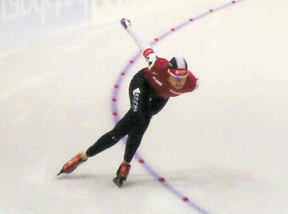 Renate Groenewold (NED) at a World Cup in Thialf (Heerenveen, The Netherlands)